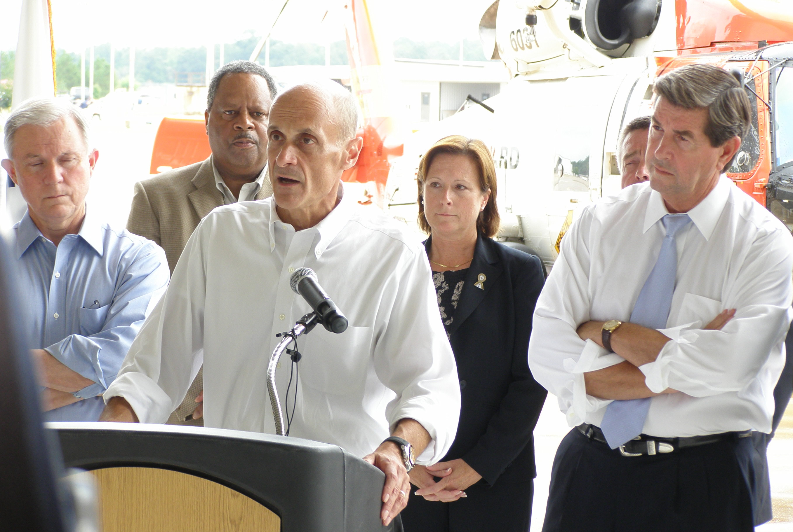 Secretary Chertoff speaking to Coast Guard members and press at a demonstration by the Coast Guard’s Deployable Operations Group. With him from left to right: Senator Jeff Sessions; Walter S. Dickerson, Director, Mobile County Emergency Management Agency; Martha Rainville, Counselor to FEMA Administrator and Deputy Administrator; and Governor Bob Riley.